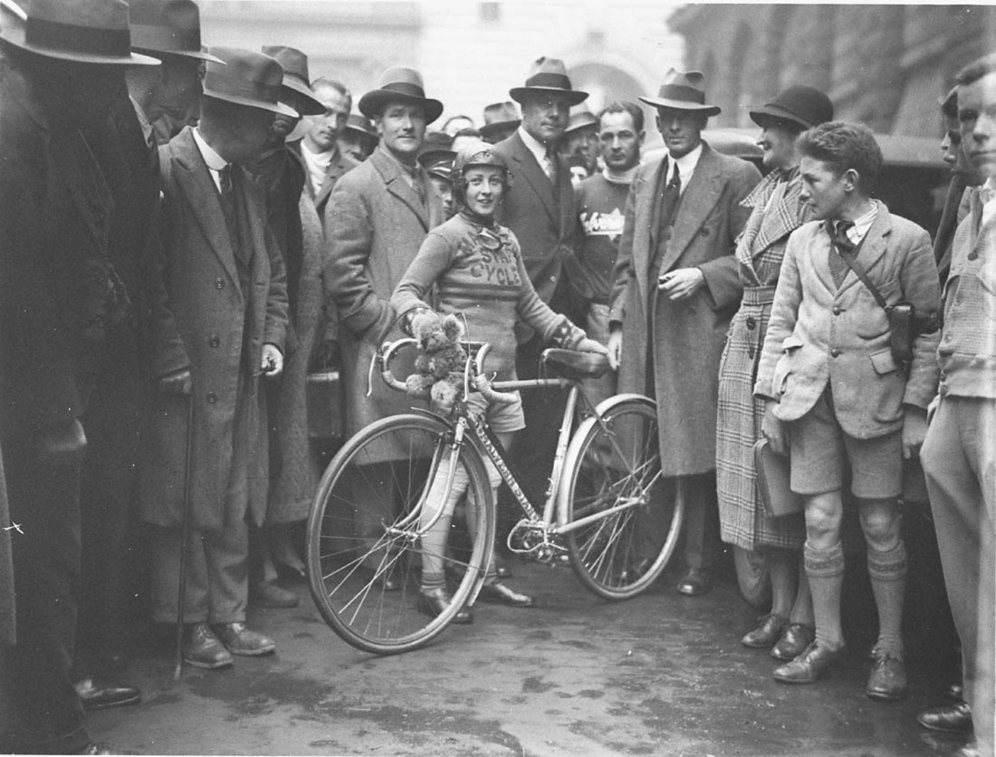 "Miss Billie Samuels started on her attack on the women's record iiom Sydney to Melbourne, held by Miss Valsa Barbour, at 10 o'clock yesterday morning. She will ride to a schedule which will bring her to the Melbourne G.P.O. at 2 p.m. on Saturday, in total time of 3 days 7 hours. This is about three hours taster than the present record." SMH 5/7/1934 .au/nla.news-article17108264 Format: Photograph Find more detailed information about this photograph: .au/item/itemDetailPaged.aspx?itemID=6884 Search for more great images in the State Library's collections: .au/search/SimpleSearch.aspx From the collection of the State Library of New South Wales